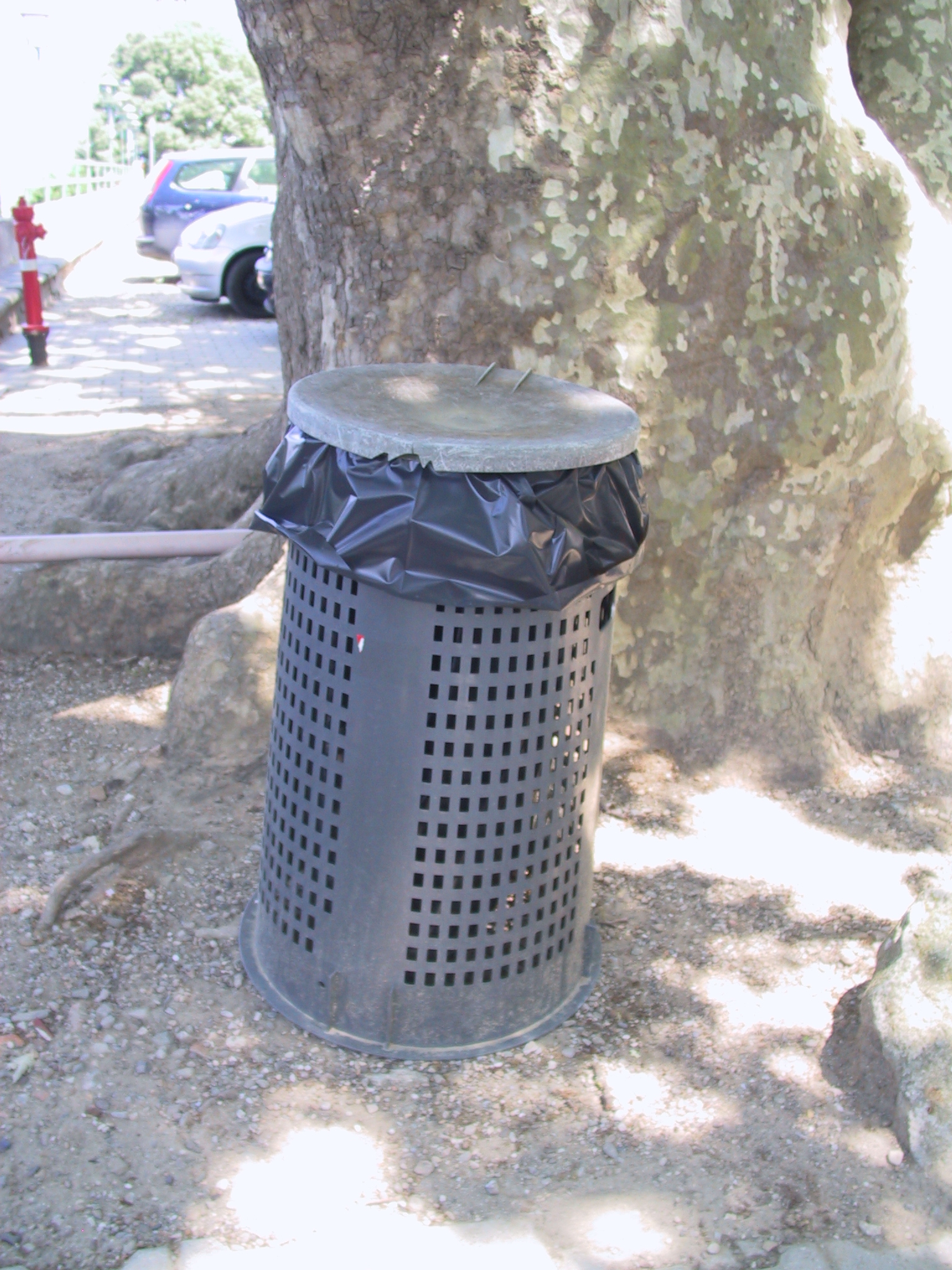 Garbage bag support